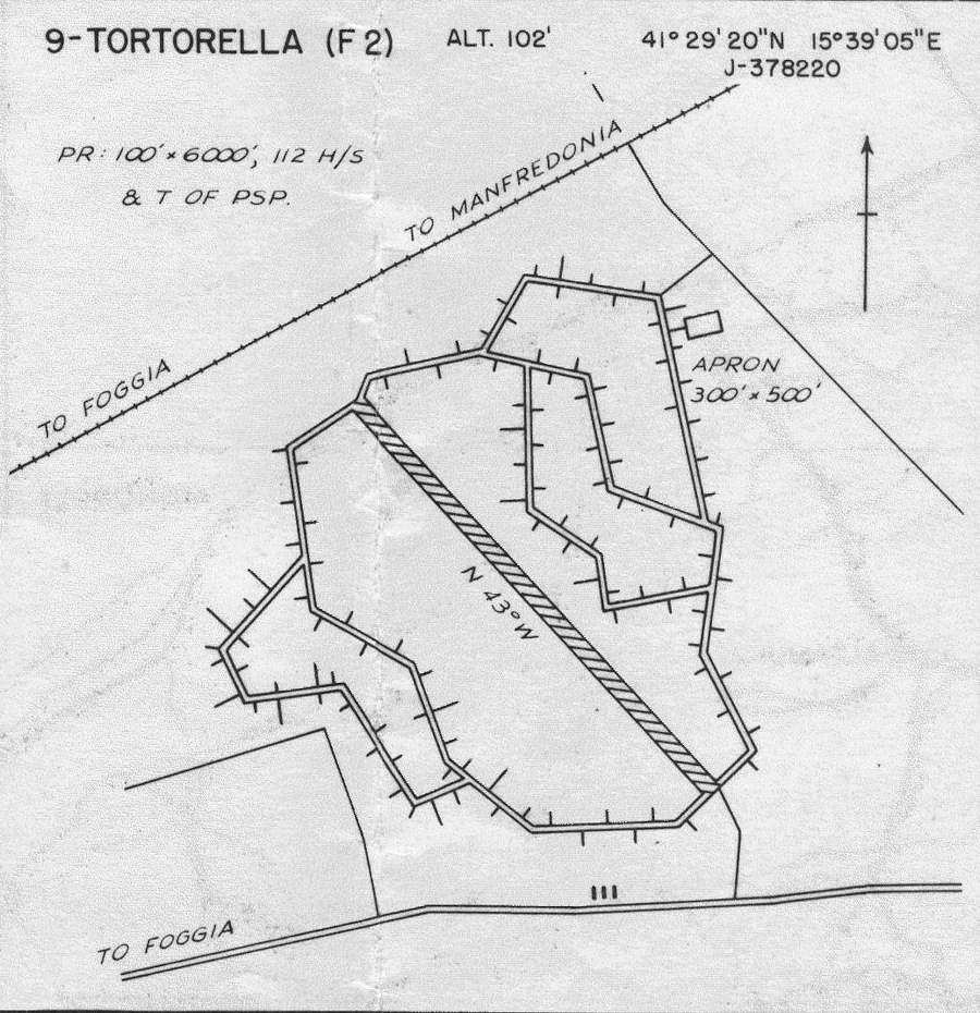 Map of Toroella Airfield, Italy